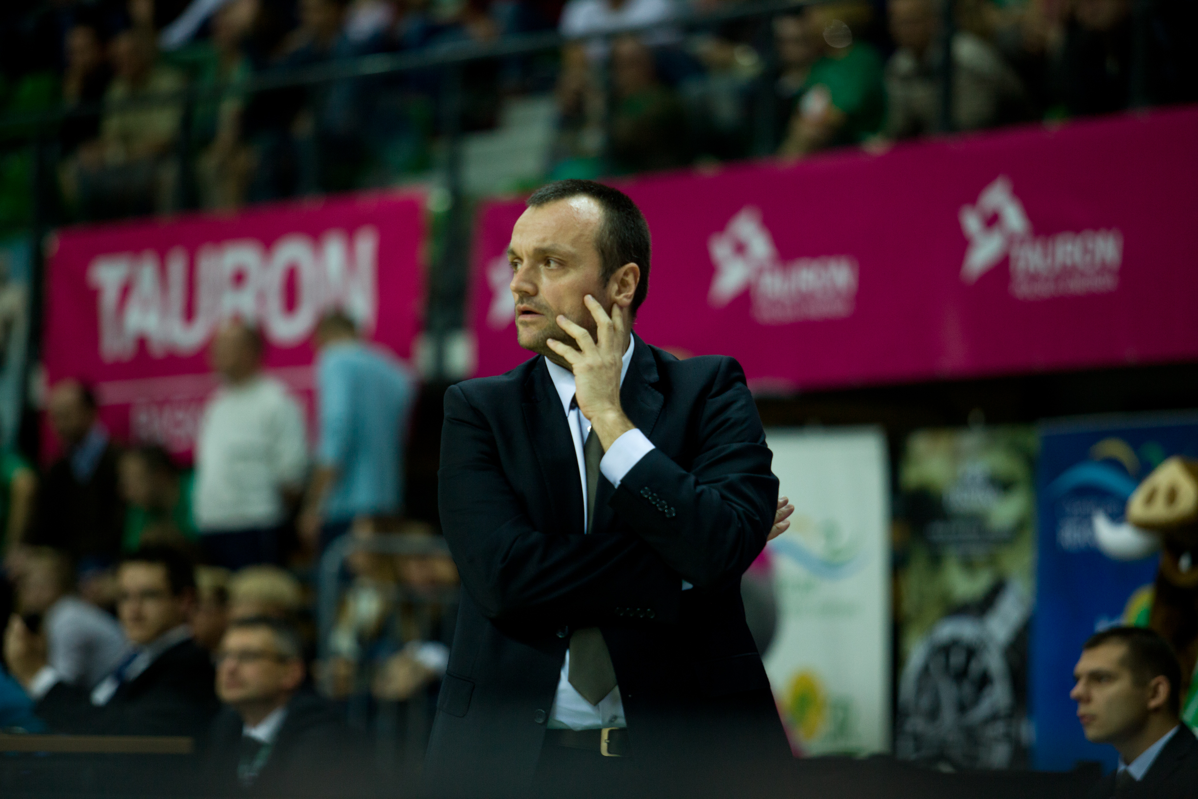 Mihailo Uvalin, trener Stelmet Zielona Góra